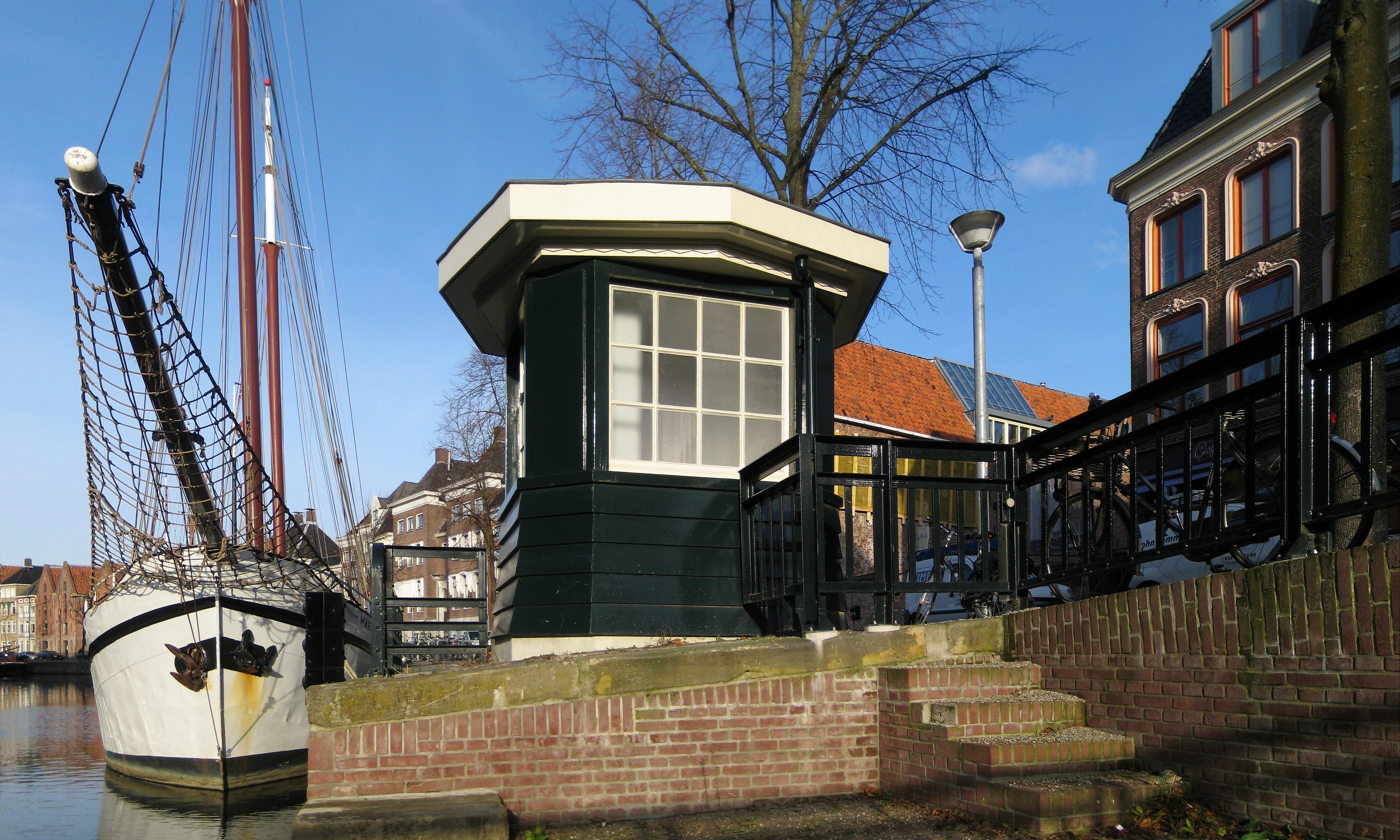 Small former bridge keeper's building (c. 1925) in the Dutch city of Groningen.